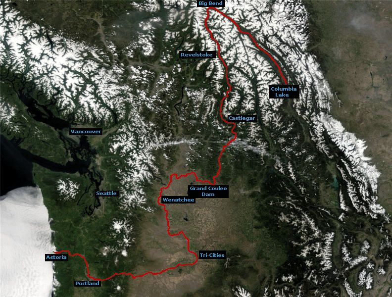 A revised version of the previous file. This revised image shows the entire run of the Columbia River including the Big Bend area in BC. Image created by me overlaid on a public-domain satellite image from NASA. NASA image source: [1]. NASA image ID: Washington.A2002164.1900.250m.jpg.